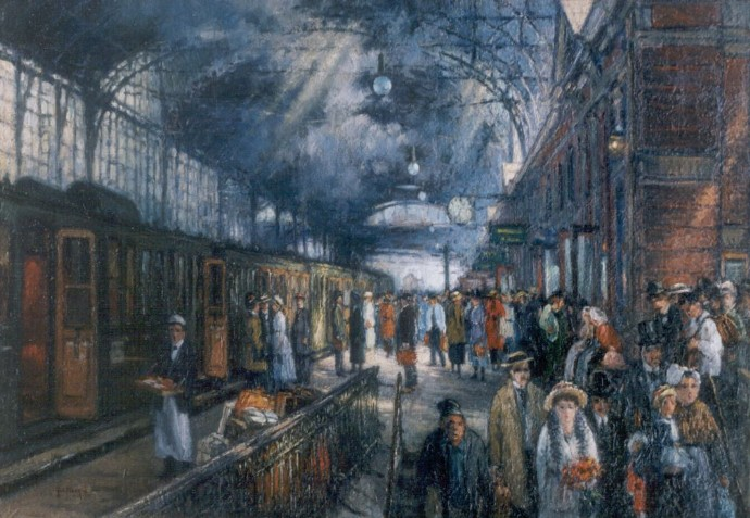 Travellers on the platform of Hollands Spoor, The Hague, oil on canvas 34,4 x 48,5 cm